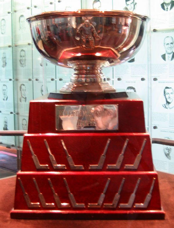 William M. Jennings Trophy on display at the Hockey Hall of Fame in Toronto. The trophy is awarded annually to the NHL goalie(s) — 25 minimum games played — whose team had the fewest goals scored against. Taken by Kmf164 on November 19, 2005.